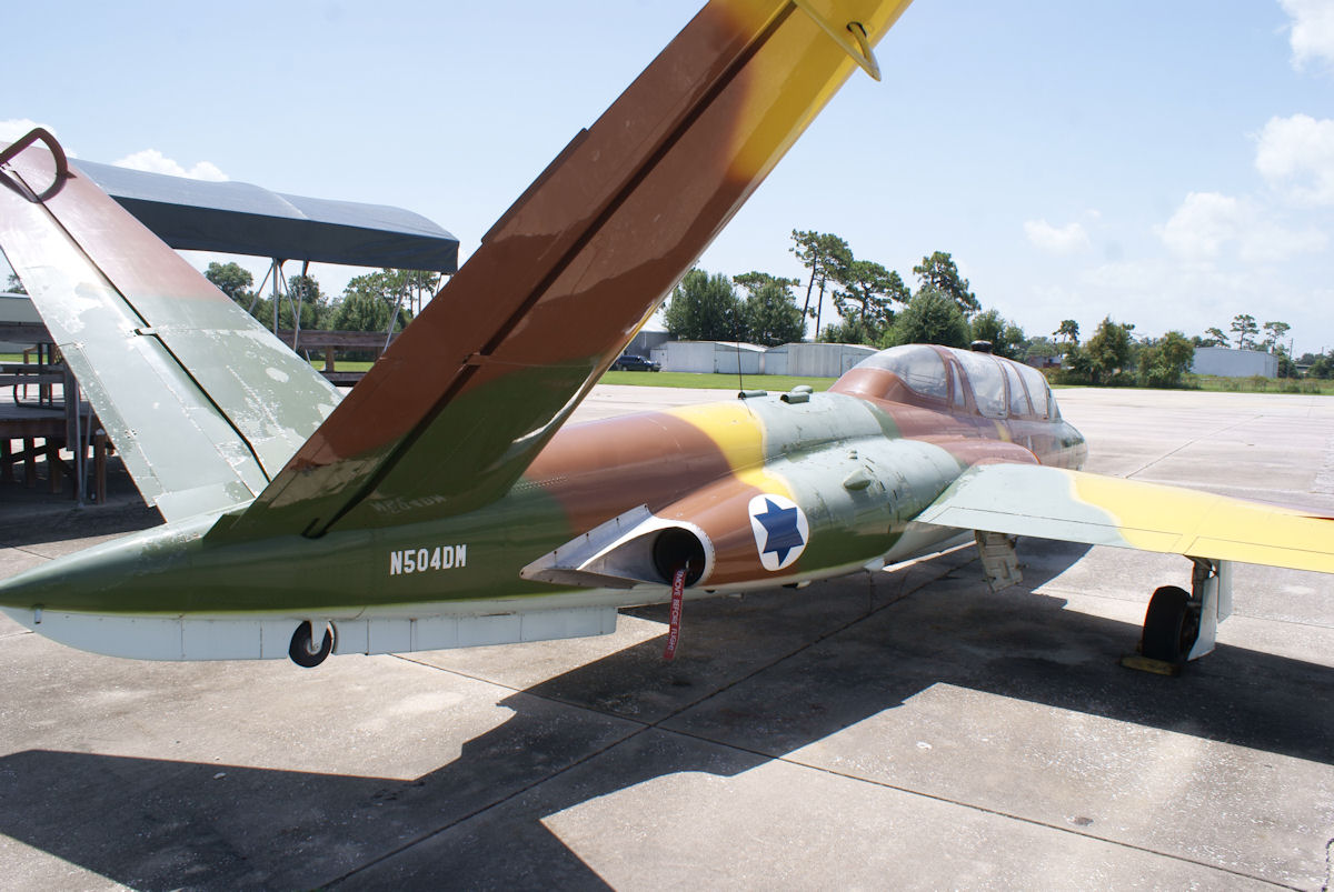 Aérospatiale_Fouga_CM.170-1_Magister_RRear_KAM_11Aug2010